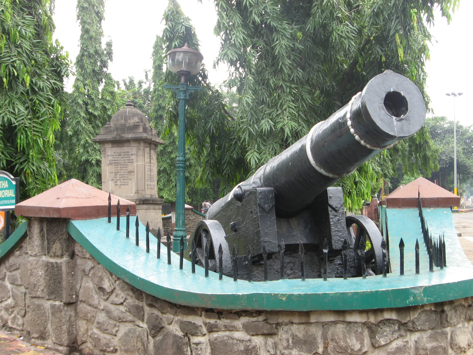 War memorial